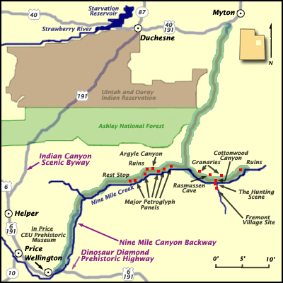 Map of Nine Mile Canyon Backcountry Byway